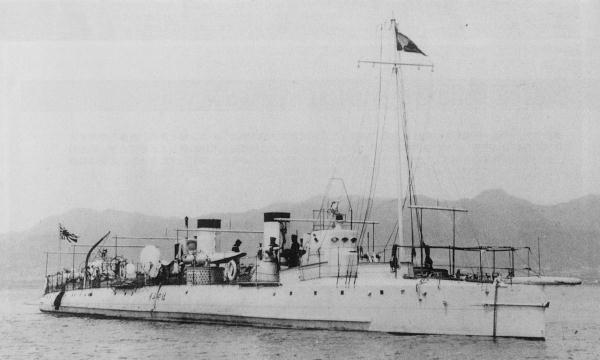 Japanese torpedo boat HAYABUSA, at Kobe (inferred).